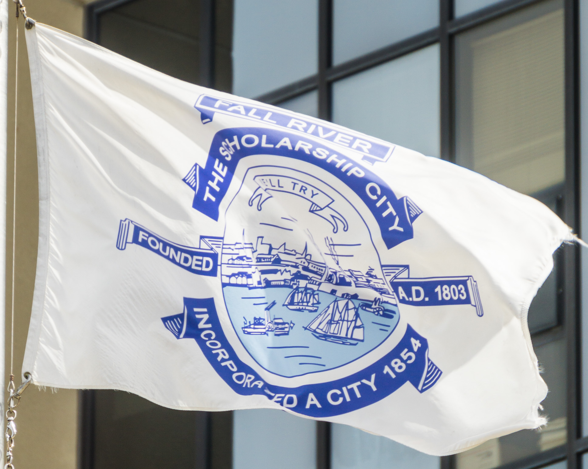 Flag of Fall River (Massachusetts) in front of Government Center (City Hall)